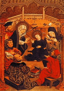 Hussite theologians disputes in the presence of King Władysław II Jagiełło.